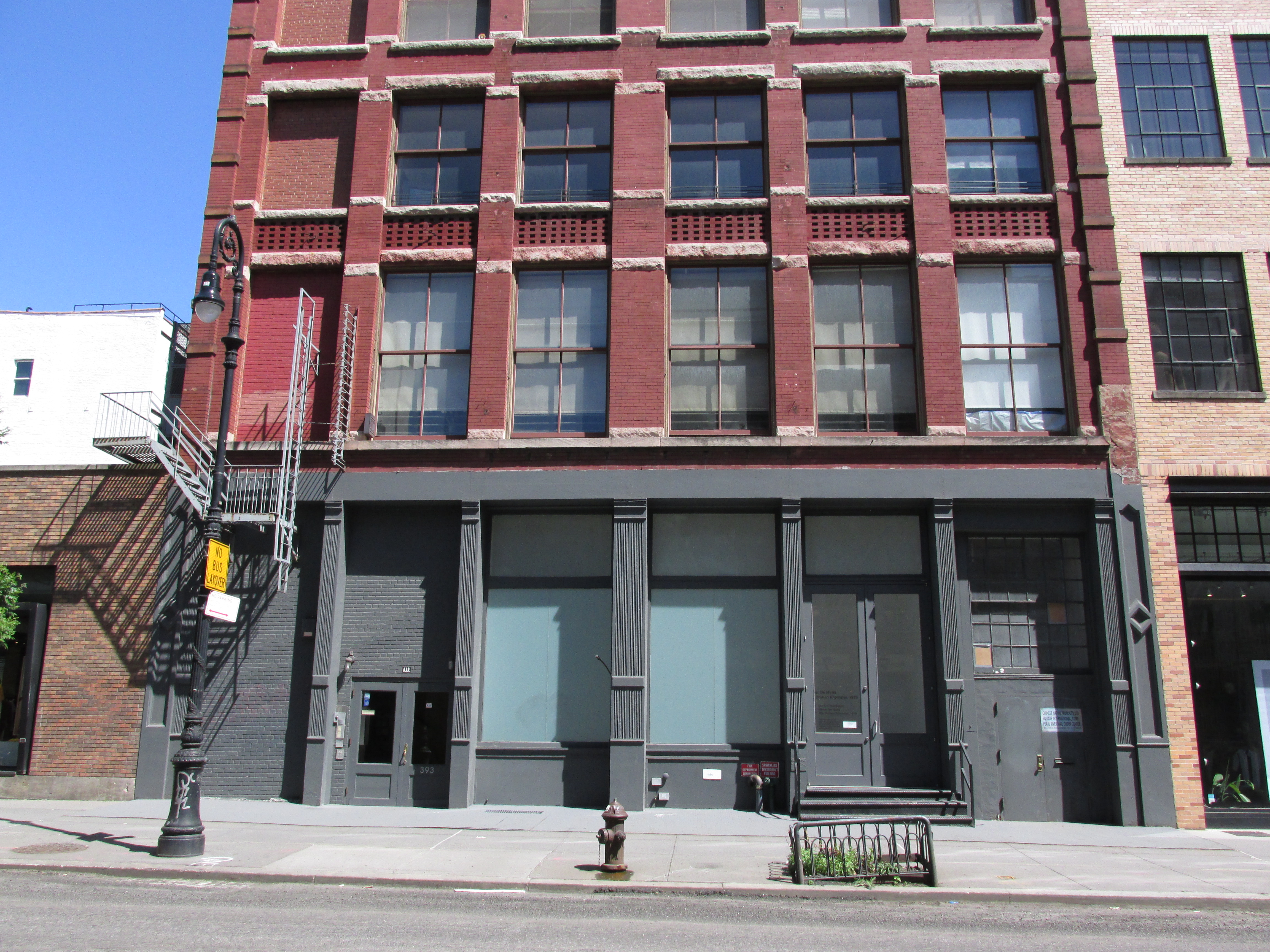 Building that houses the Broken Kilometer by Walter De Maria